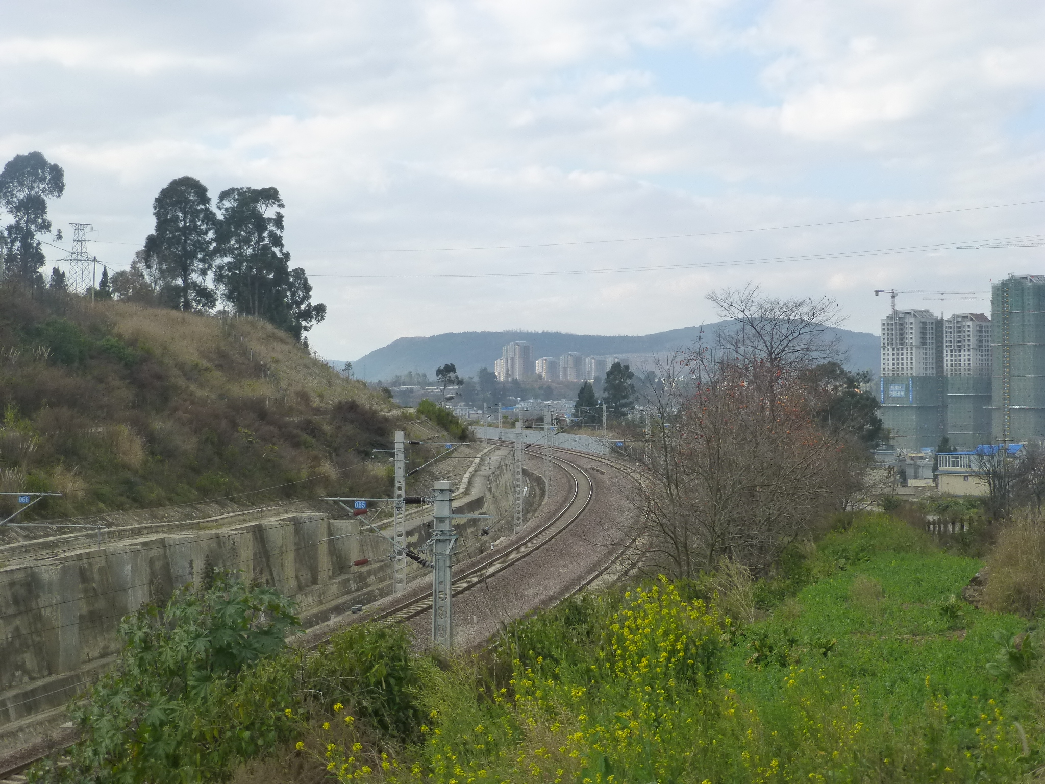 The Kunming-Yuxi Railway, between Zhongtan Station and Zhongyicun Station, seen from Yunnan Hwy 215, in Haikou Subdistrict, Xishan District, Kunming